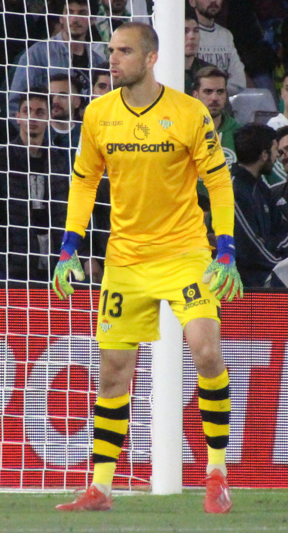 Pau Lopez playing for Real Betis vs FC Barcelona, 17/03/2019